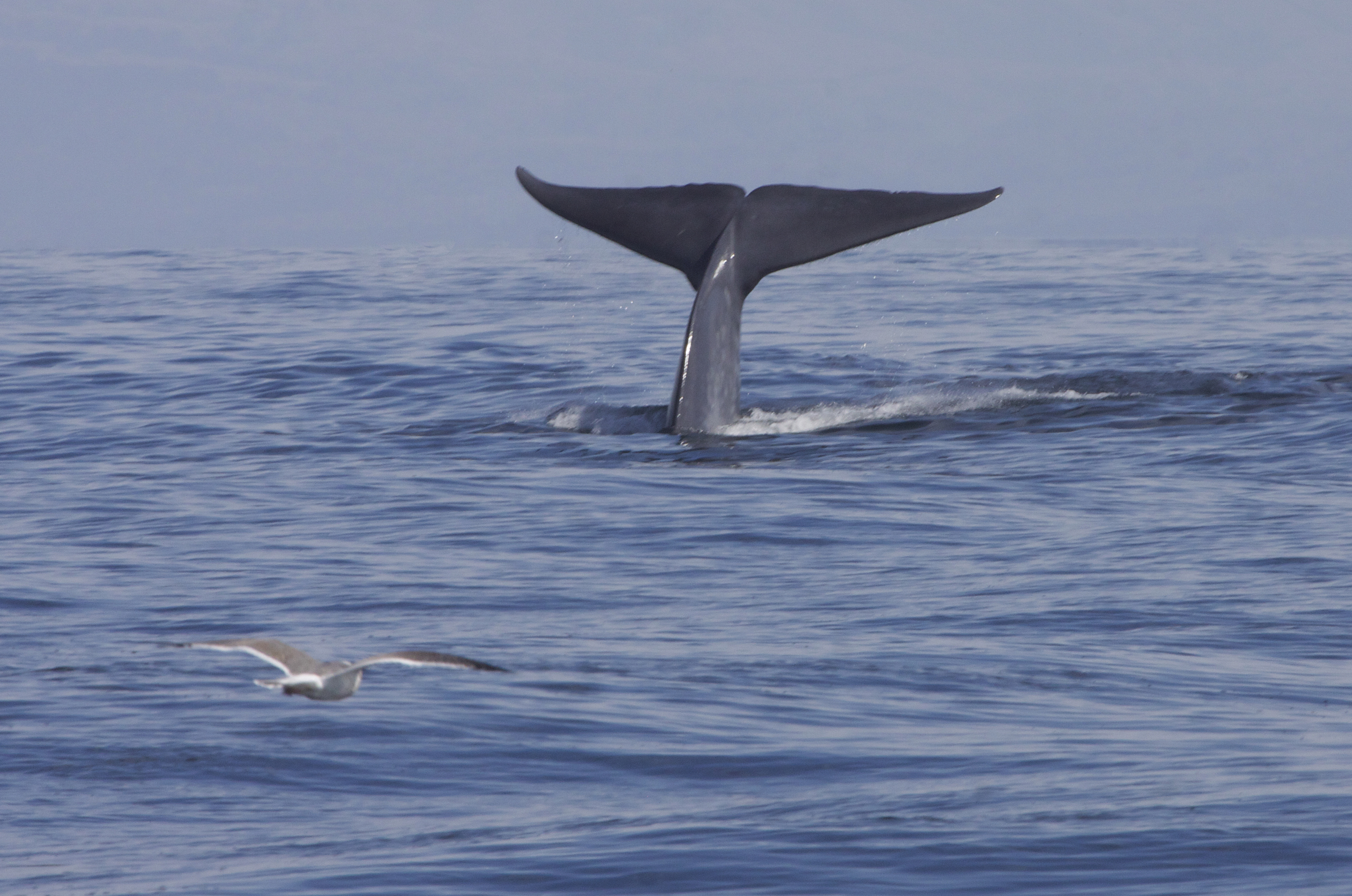 On my California tour last year, we were fortunate enough to have a loose group of 25 blue whales off of Half Moon Bay, CA...